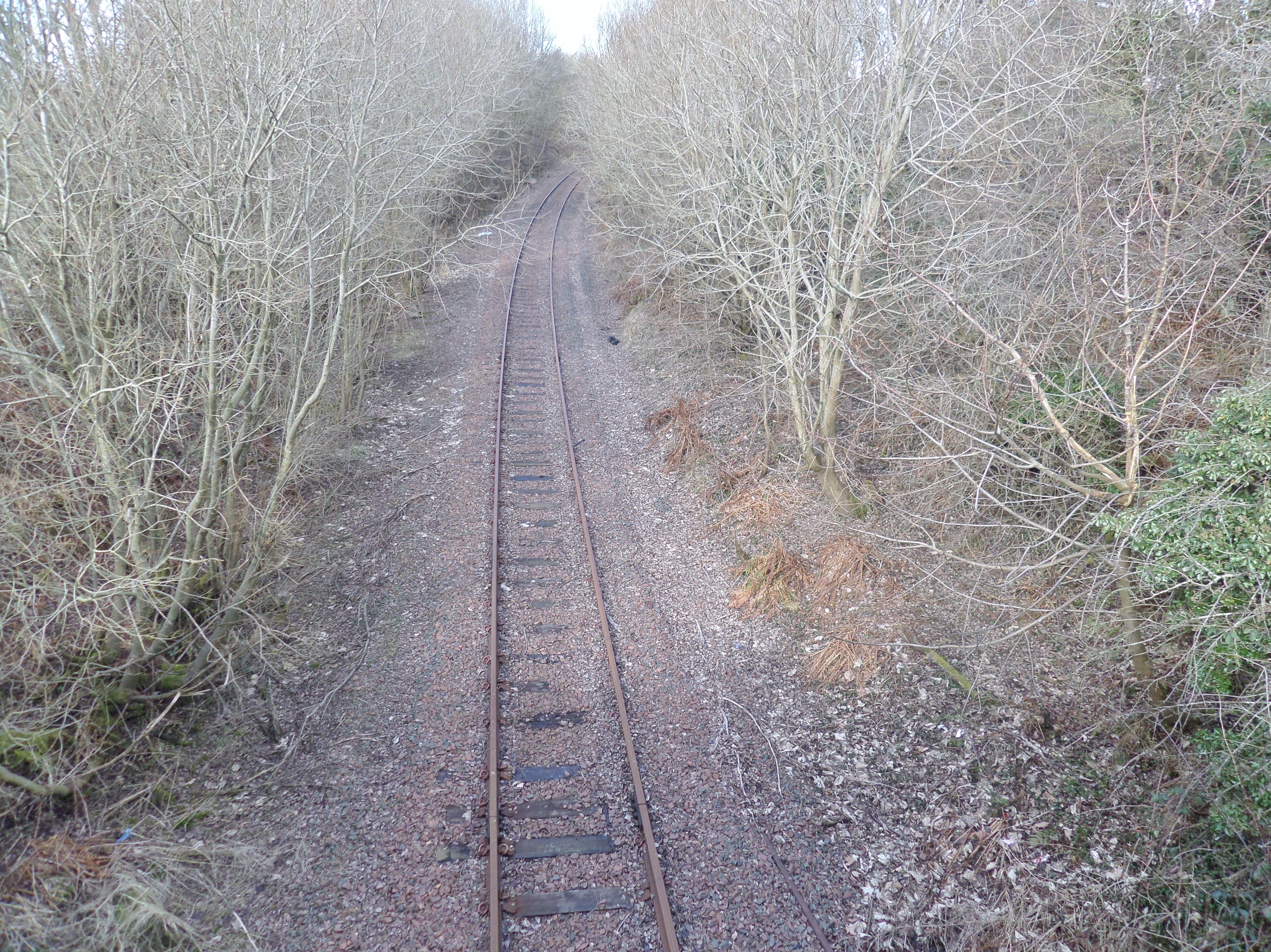 Weston Bridge Platform site, Annbank, East Ayrshire - view towards Annbank station. The station was on the left hand side.